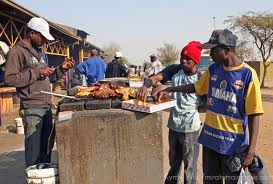 people from all work of life come to eat kapana